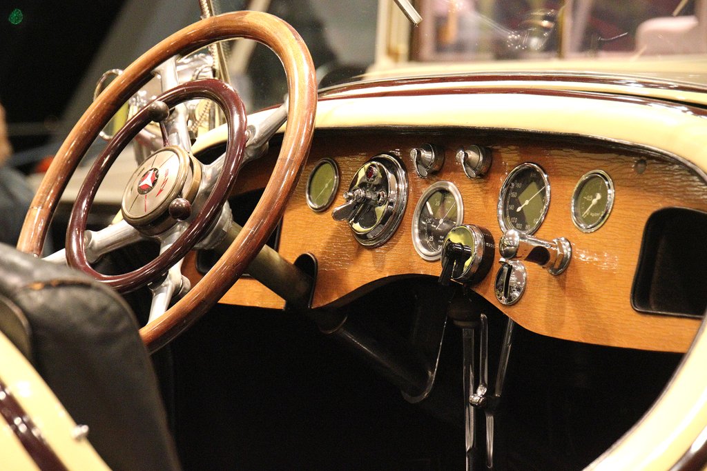 Visit at the Mercedes-Benz Museum, 09.04.2011